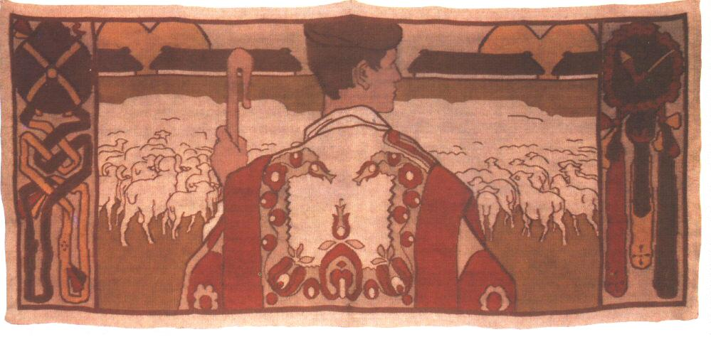 The Shepherd (carpet)